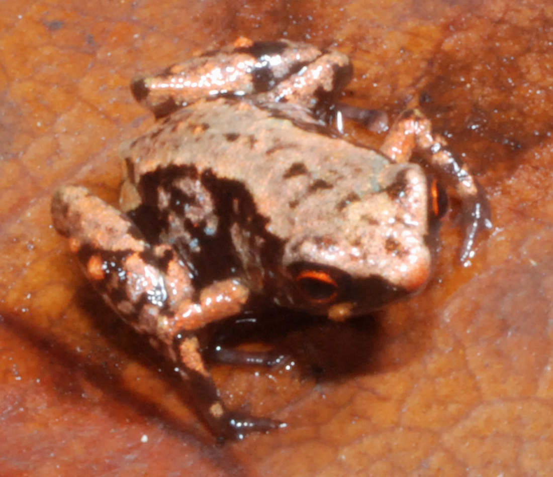 Photograph of a paratype of Paedophryne swiftorum in life (BPBM 31880).